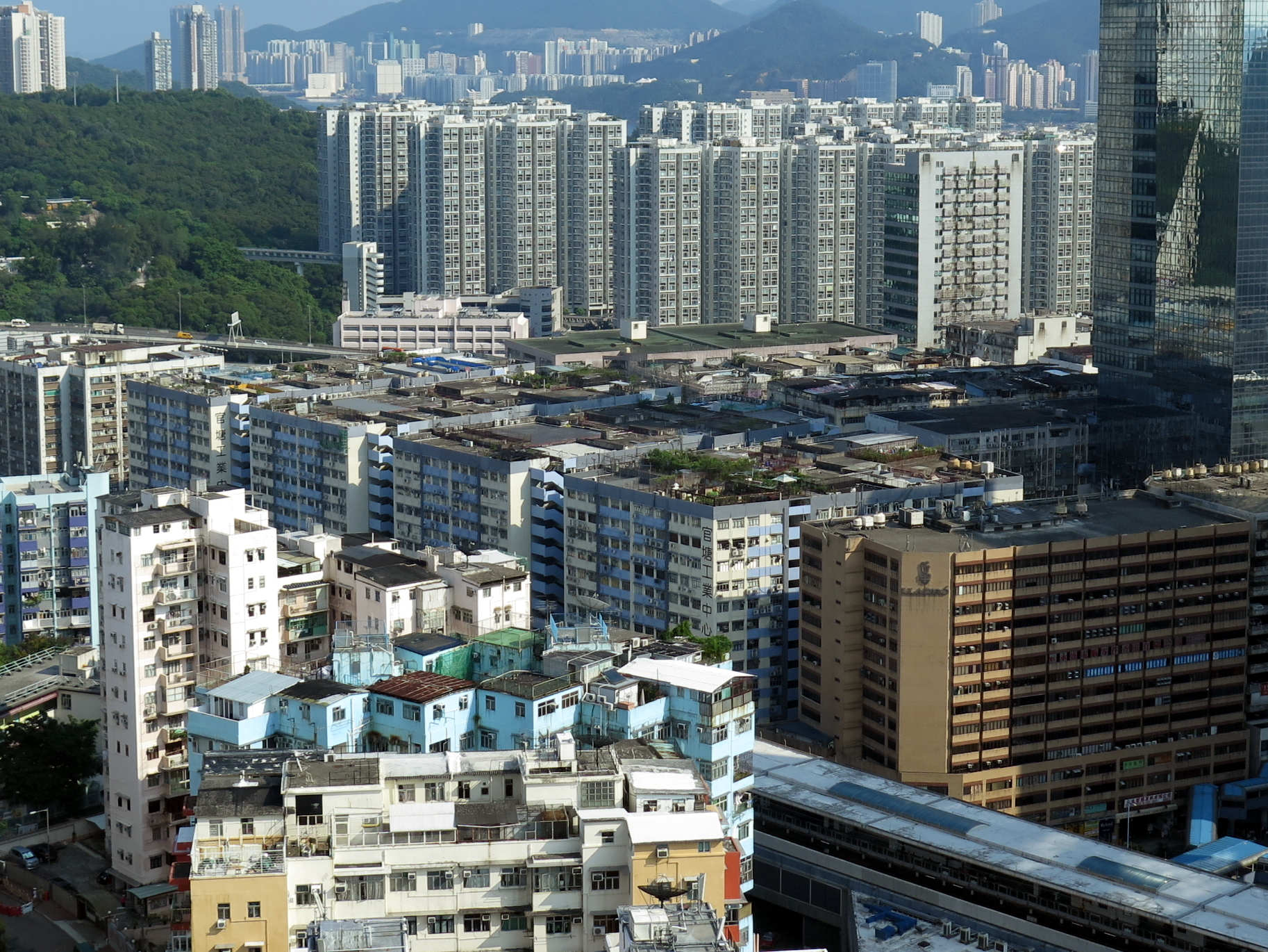 Kwun Tong Industrial Centre